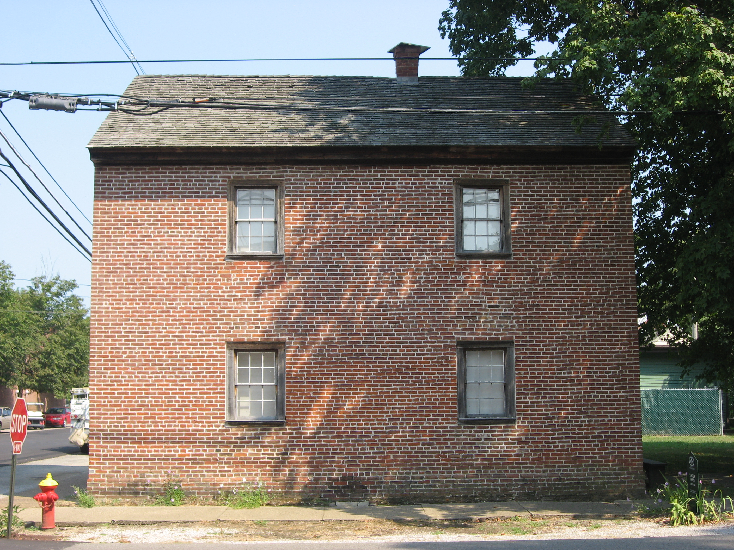 Front of the Mattias Scholle House, located on the northeastern corner of the junction of Tavern and Brewery Streets in New Harmony, Indiana, United States. Built in 1823, it is listed on the National Register of Historic Places, and it is part of the New Harmony Historic District, a National Historic Landmark District.